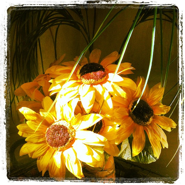 "Sunflowers." An example of iPhoneography. Author - Alexander Kostenko